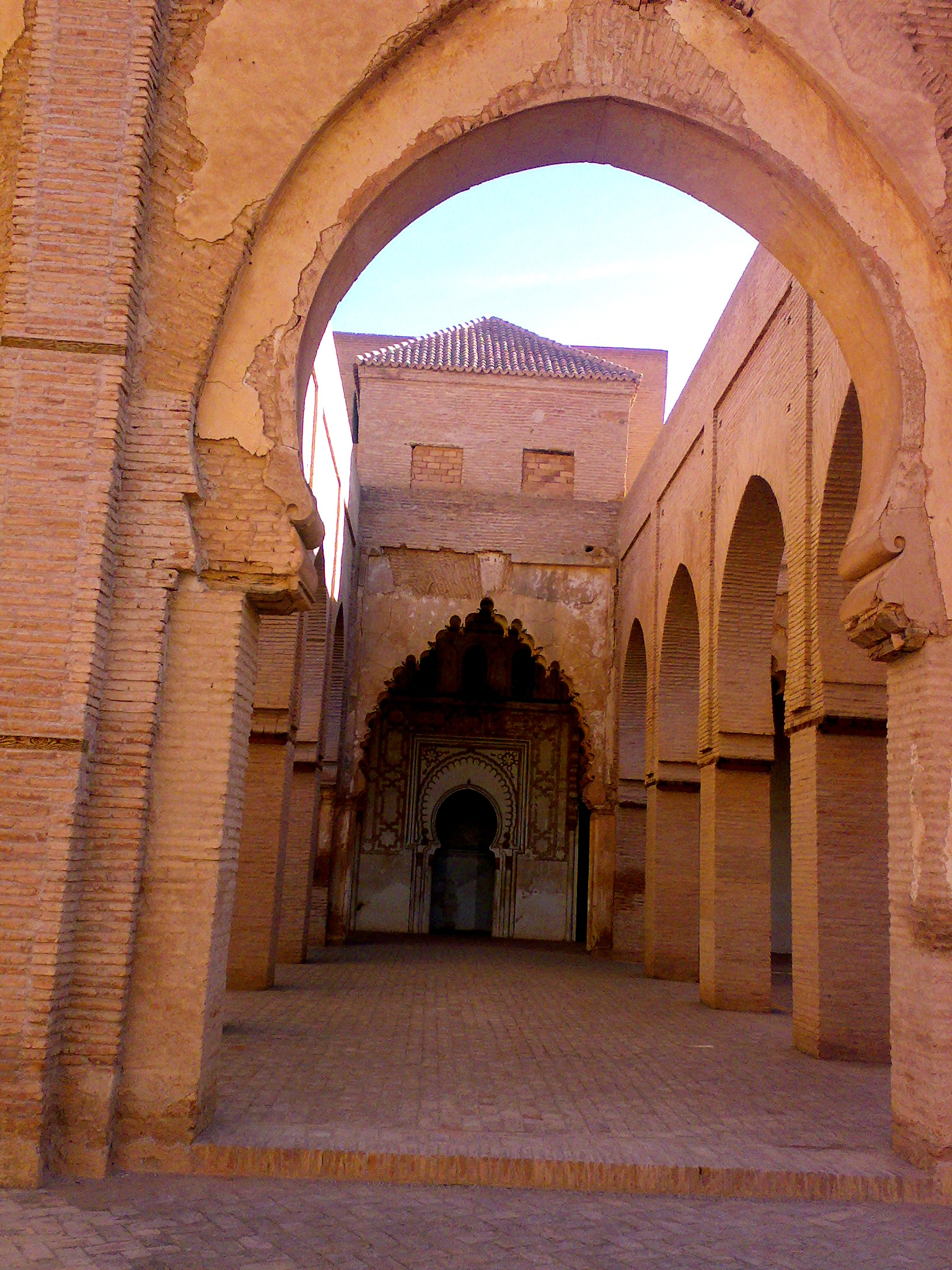 tinmel mosque inside view